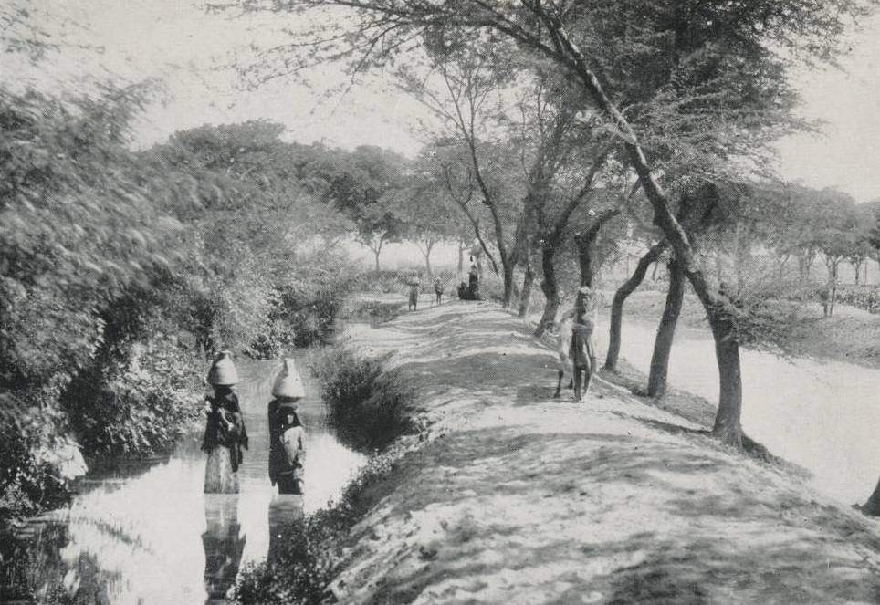 COUNTRY SCENE NEAR CAIRO. Two women with large jugs on their heads wade through the water alongside a raised path where several people are walking.